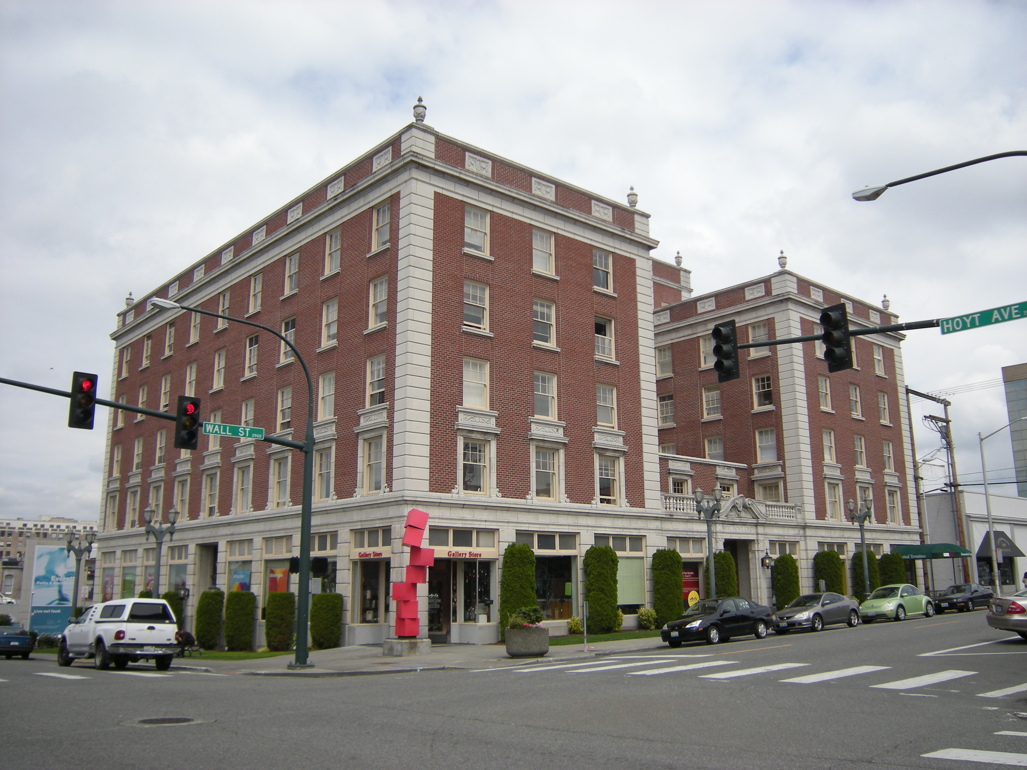 The Monte Cristo Hotel (also known as Hotel Monte Cristo and now Monte Cristo Apartments), 1507 Wall Street, Everett, Washington. The building is on the National Register of Historic Places. Object location47° 58′ 41″ N, 122° 12′ 30″ W